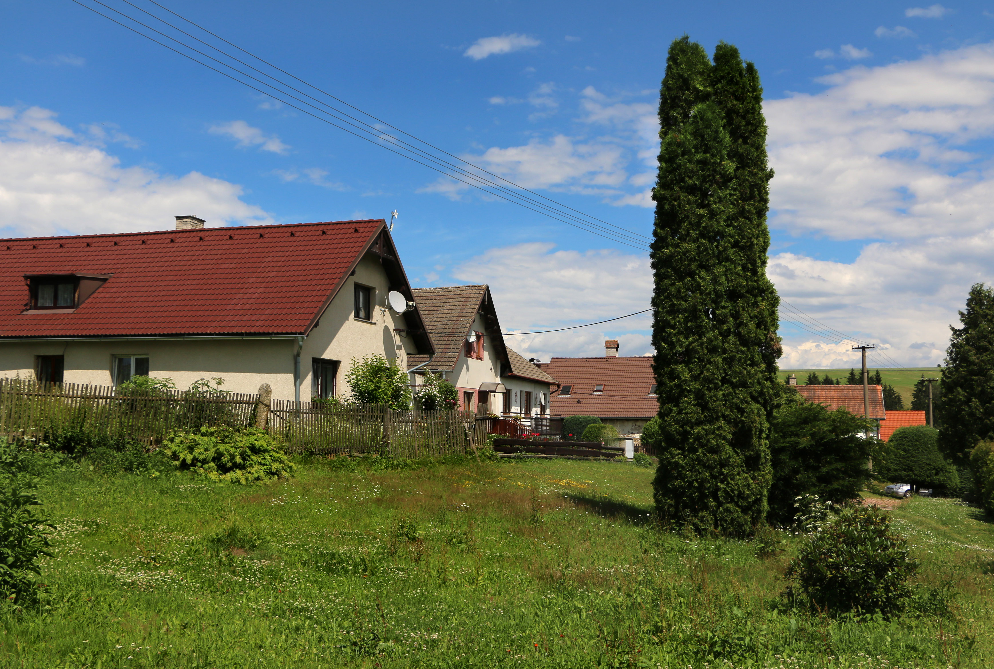 North part of common in Suchá village, Czech Republic.